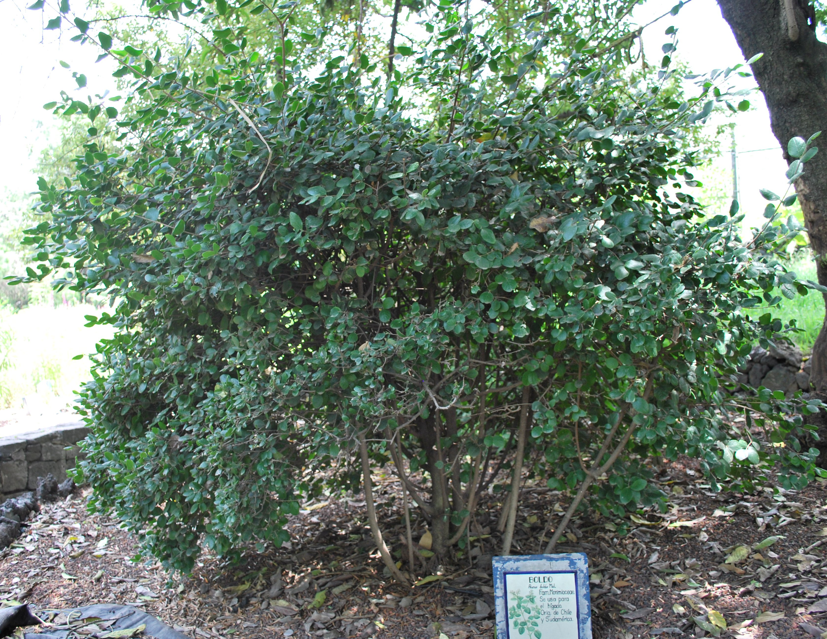 "boldo" plant (Peumus boldus, Monimiaceae) at the medicinal plant section of the Botanical Garden of UNAM in Mexico City